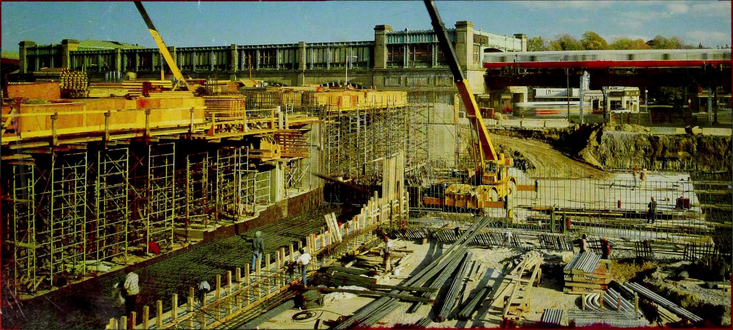 Forest Hills station under construction in 1985, with the 1909-opened Elevated station behind